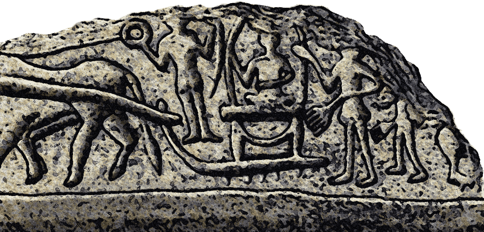 Cylinder-seal impression that comes from Arslantepe-Malatya (Turkey). It dates from 4th millennium B.C. It shows a ceremonial threshing with threshing-sledge